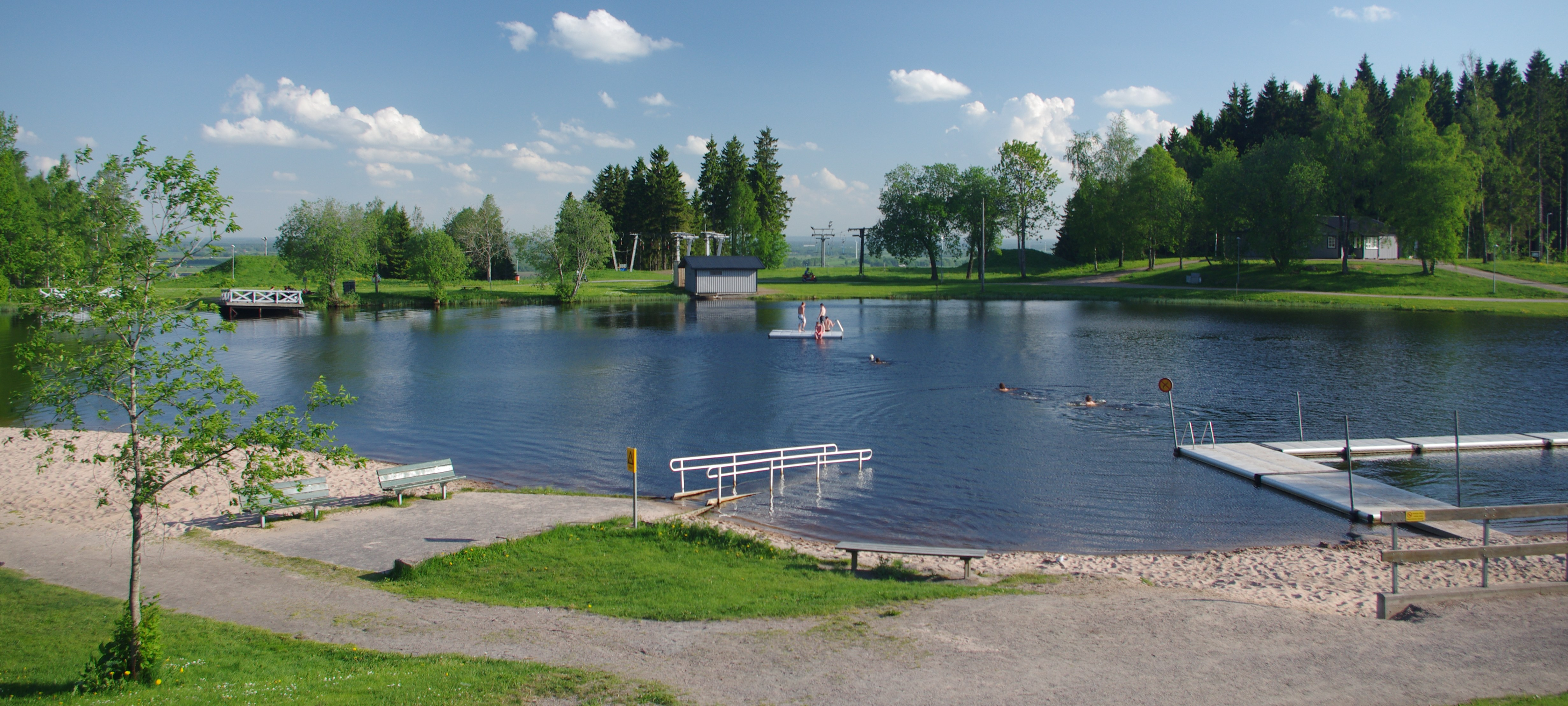 Skogssjön (Pankasjön): Lake in Västergötland Sweden